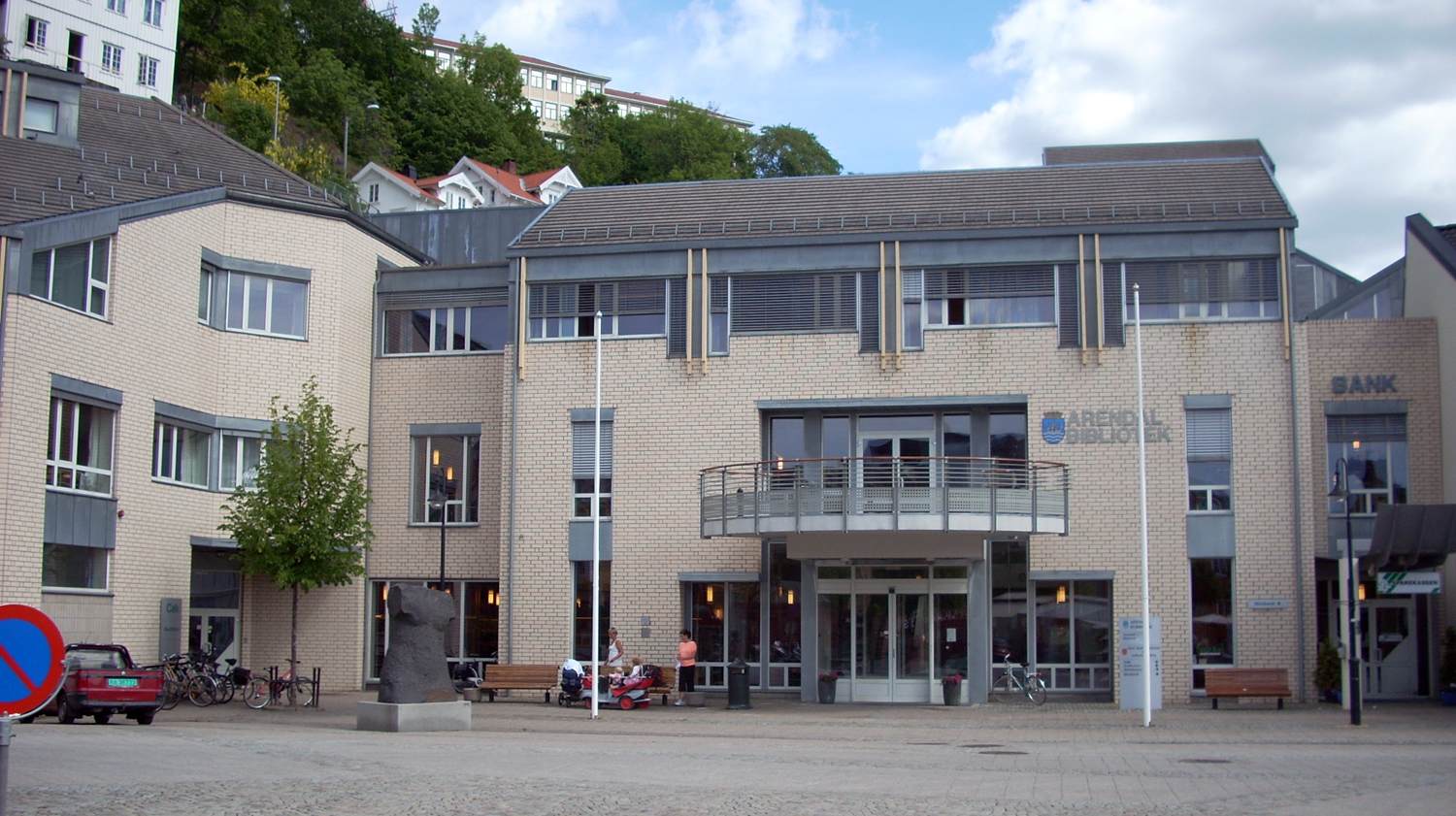 Arendal Bibliotek - Arendal Library, in Arendal, Norway